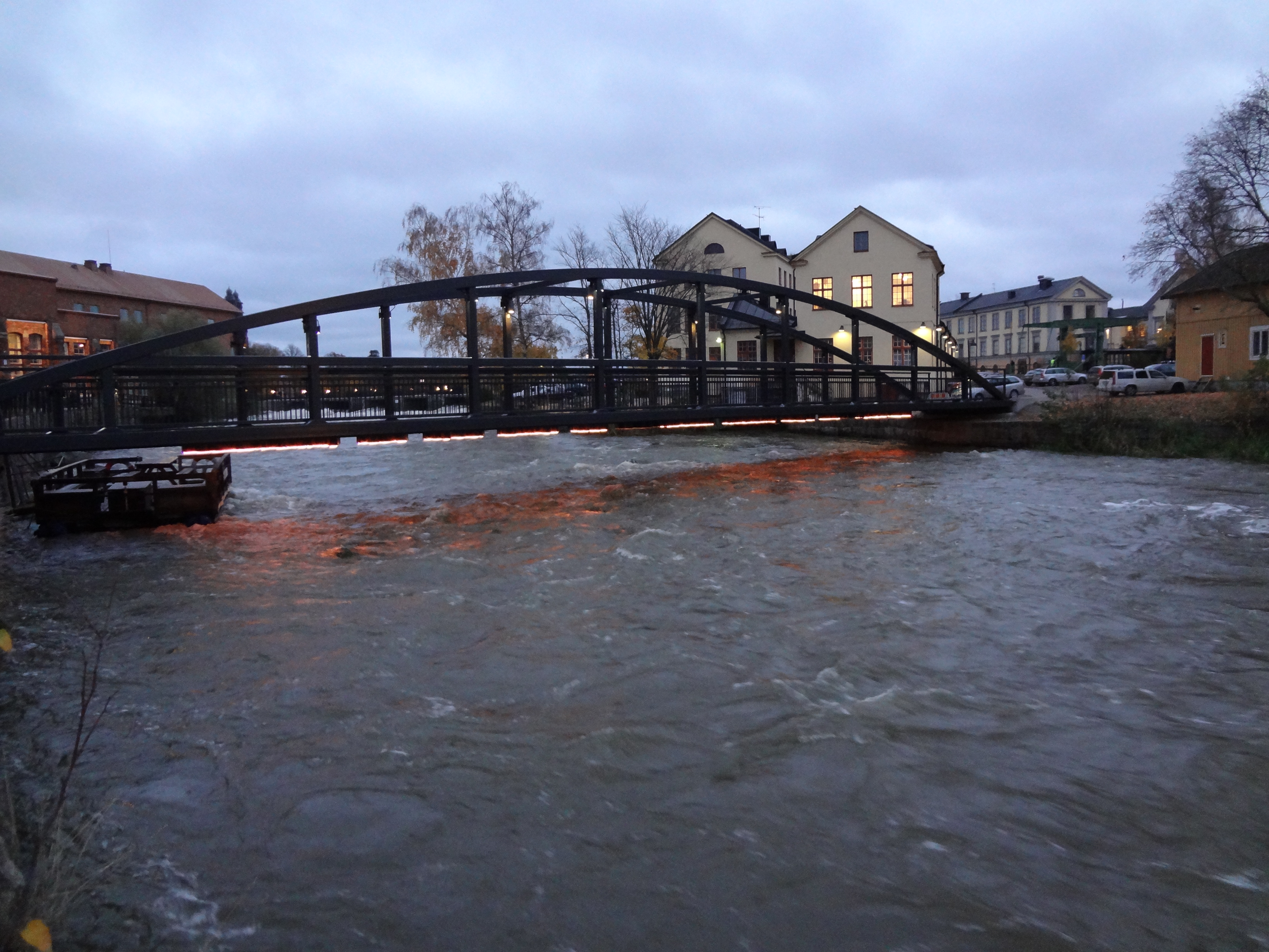 "Fredriques bro", bridge in Eskilstuna.